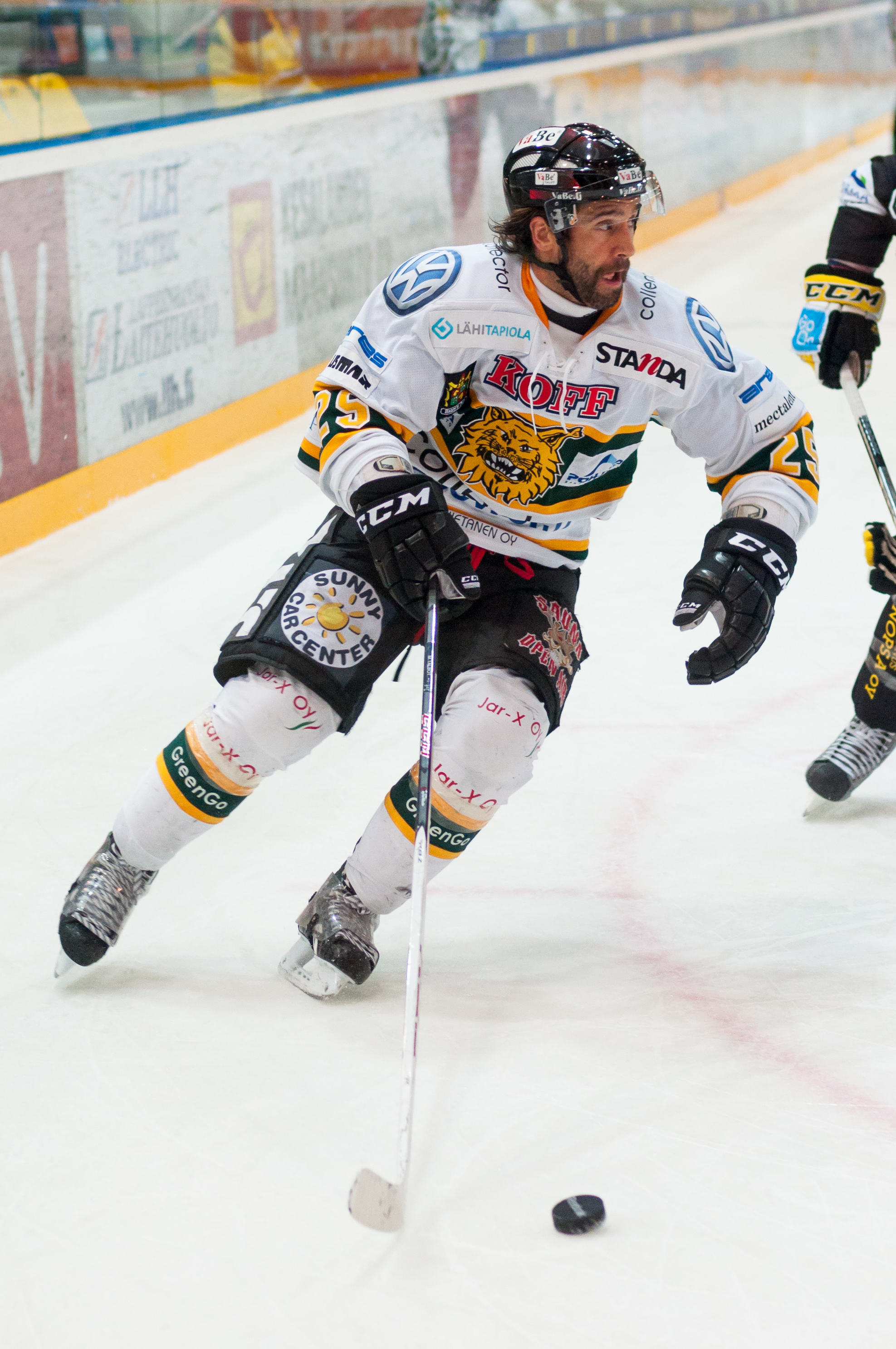 Canadian ice hockey center Maxime Talbot playing for Tampereen Ilves against SaiPa Lappeenranta in Lappeenranta, Finland.